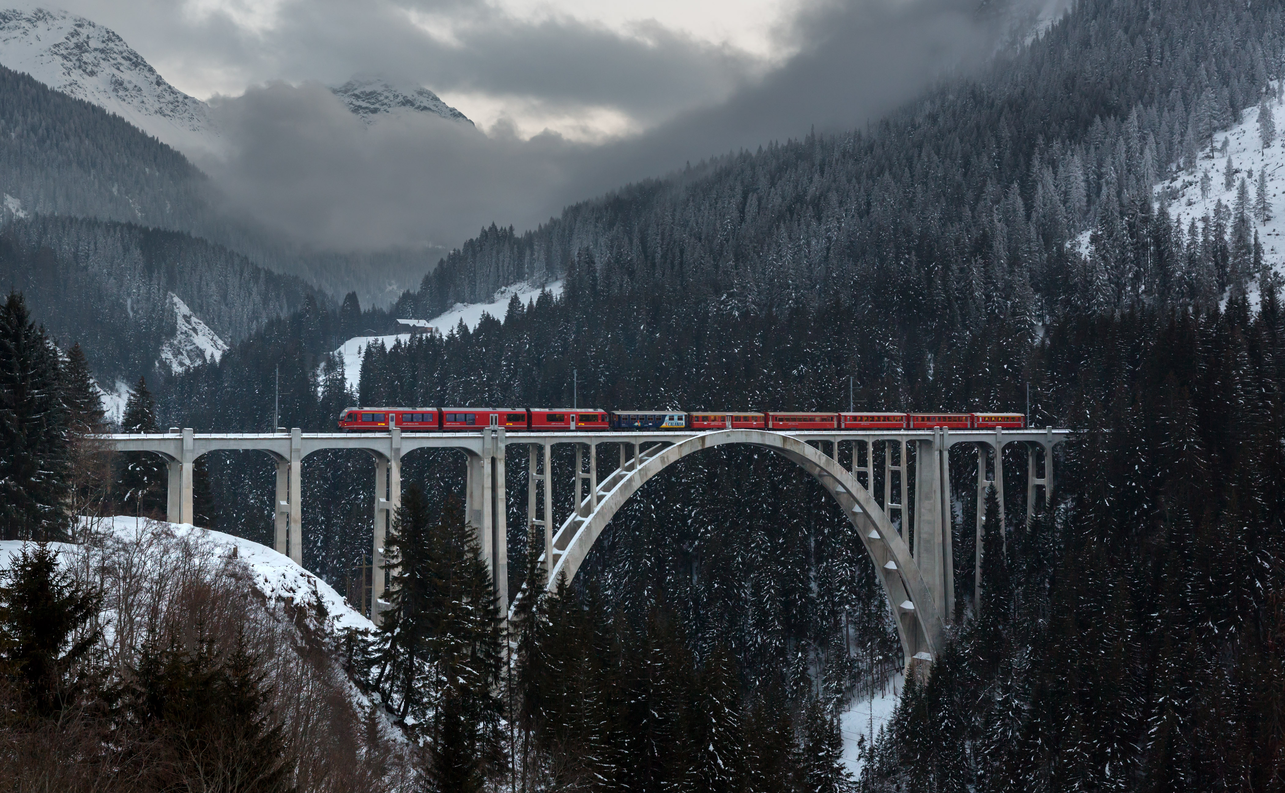 A local train from Arosa to Chur crosses the Langwieser Viaduct, Langwies, Switzerland. The train is hauled by an ABe 8/12 "Allegra" EMU.